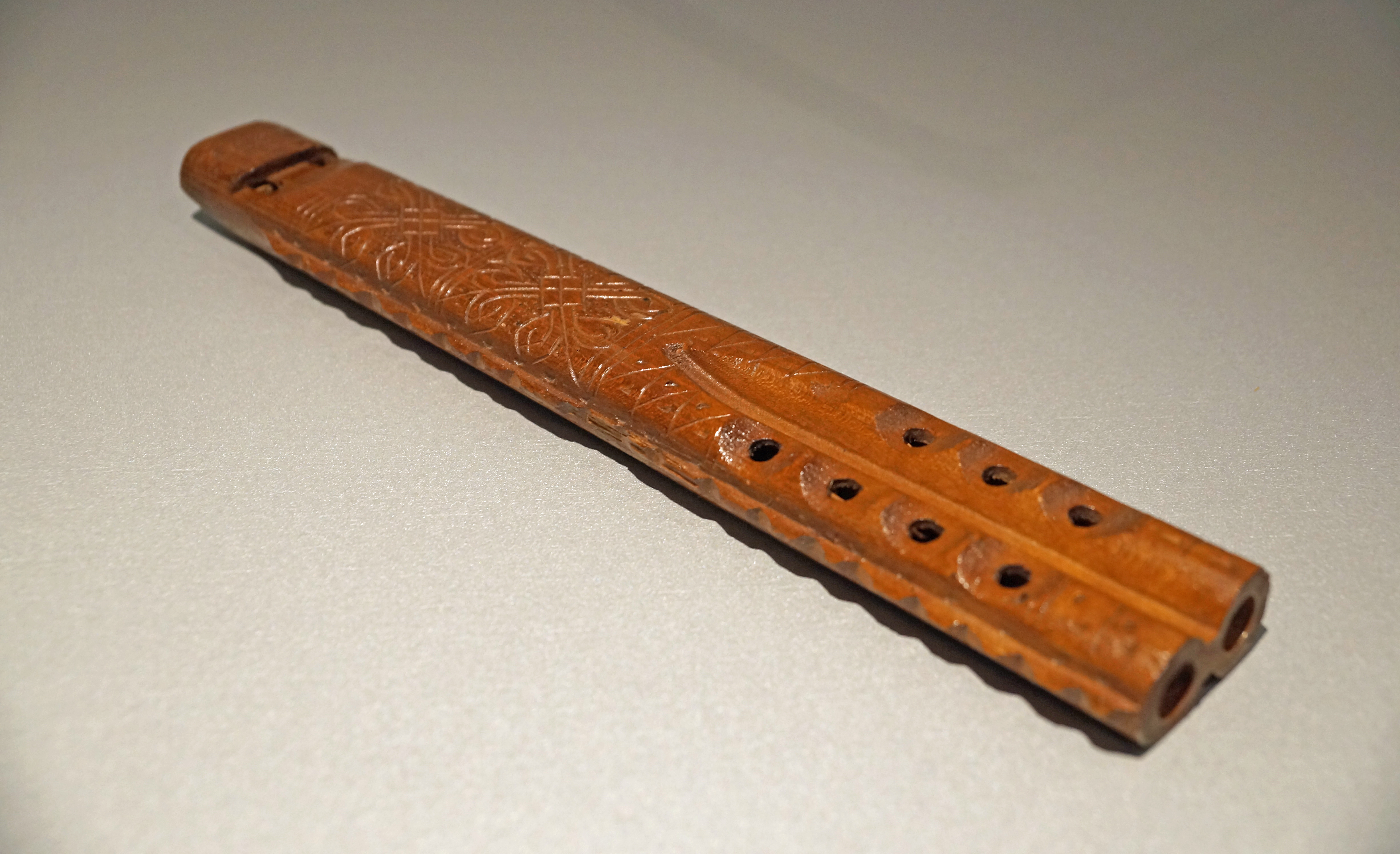 Curle dyjare - Northern Albanian flute – uploaded during Wikipedia Weekend Tirana 2015